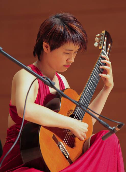 Meng Su in concert in China . 2014